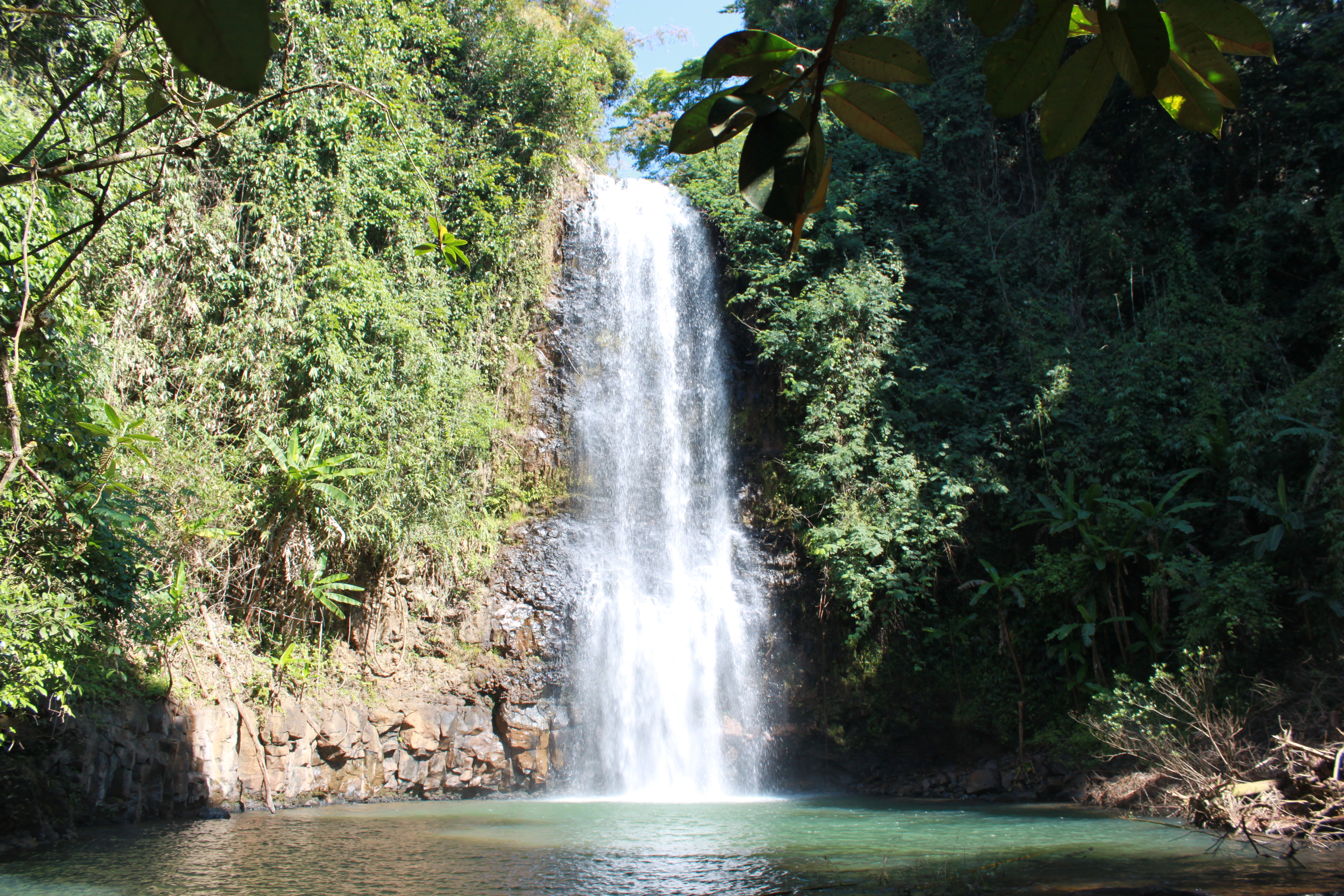 Mang Den, Kon Tum Vietnam